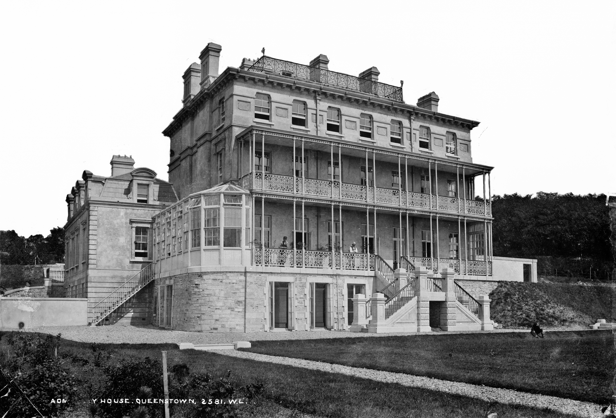 I selected this photograph from the catalogue for two reasons, firstly because it is a striking building and secondly because I knew absolutely nothing about it. All that said I am willing to wager that there is not an Admiral to be seen. While those pictured are likely not from the Admiralty, today's contributors suggest that they may have been labourers, gardeners or painters on the house in Queenstown (Cobh) County Cork. We say this because, with thanks to [/photos/129555378@N07/ sharon.corbet], [/photos/chartrouse/ Tom Kennedy1], [/photos/91549360@N03/ O Mac], [/photos/gnmcauley/ Niall McAuley], [/photos/20727502@N00/ guliolopez] and in particular [/photos/beachcomberaustralia/ beachcomberaustralia], we know that this house was built between 1885 and 1886. And some of the exterior features (dated to 1886) are not yet visible. The discussion below also gives some extra detail (and links to interior photos) of what was the home of the commander of the Coast of Ireland Station.... Photographer: Robert French Collection: Lawrence Photograph Collection Date: c.1865-1914. Very likely c.1885/1886 NLI Ref: L_CAB_02581 You can also view this image, and many thousands of others, on the NLI’s catalogue at